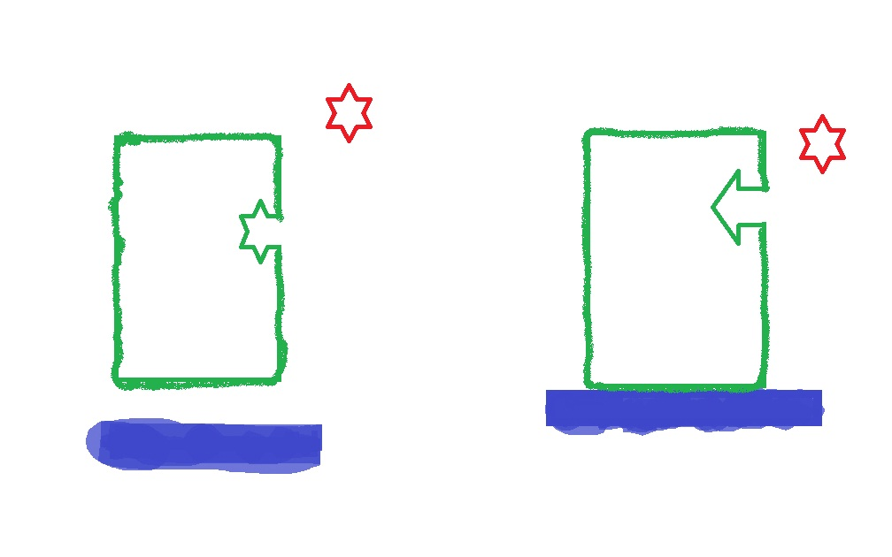 Illustration of how protein conformational changes as a result of adsorption can change ligand binding sites.